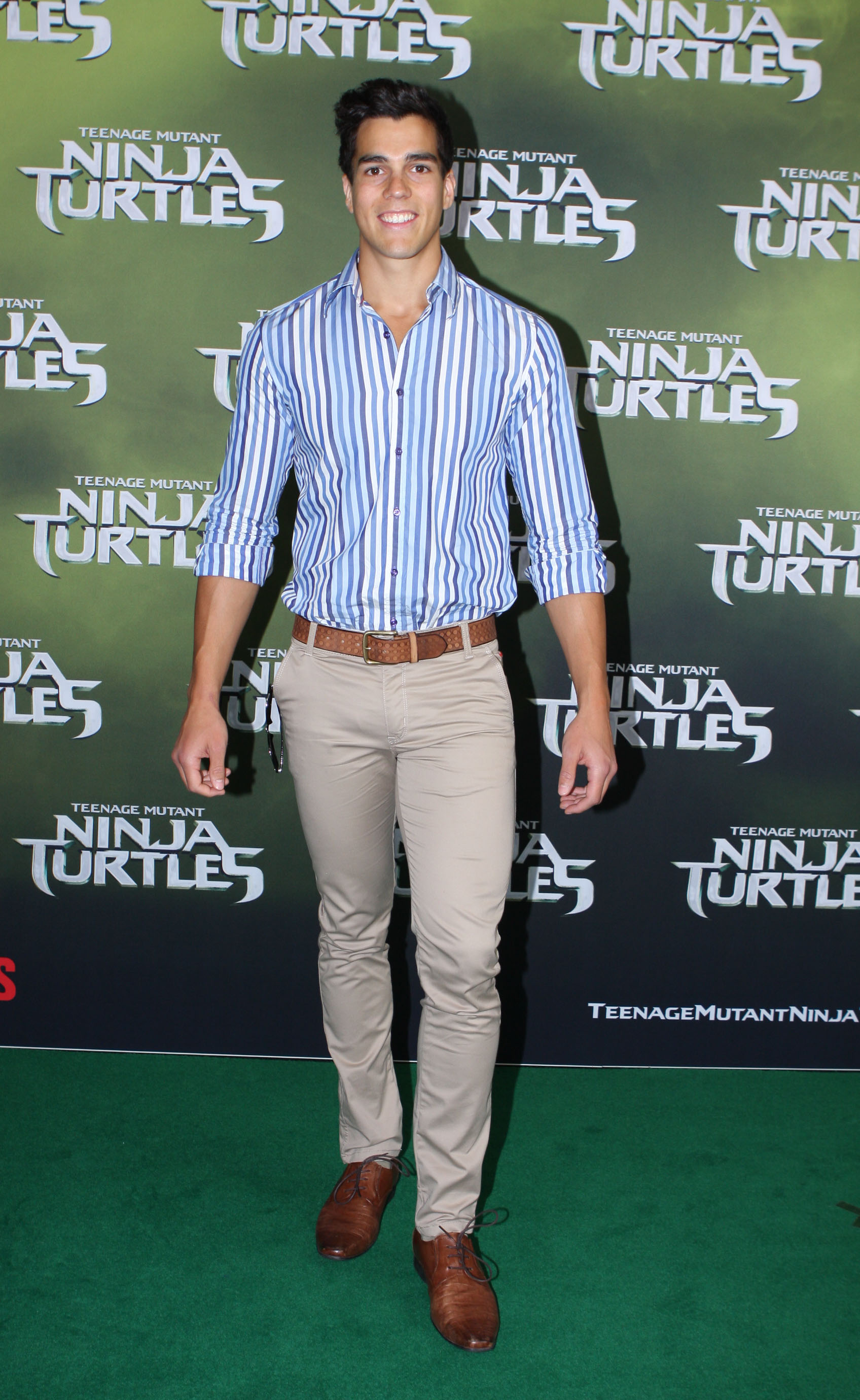 Chris Nayna, registered nurse, Cleo Bachelor finalist 2014, Mr World Australia Runner Up and model at Teenage Mutant Ninja Turtles Special Event in Sydney, Australia, September 2014